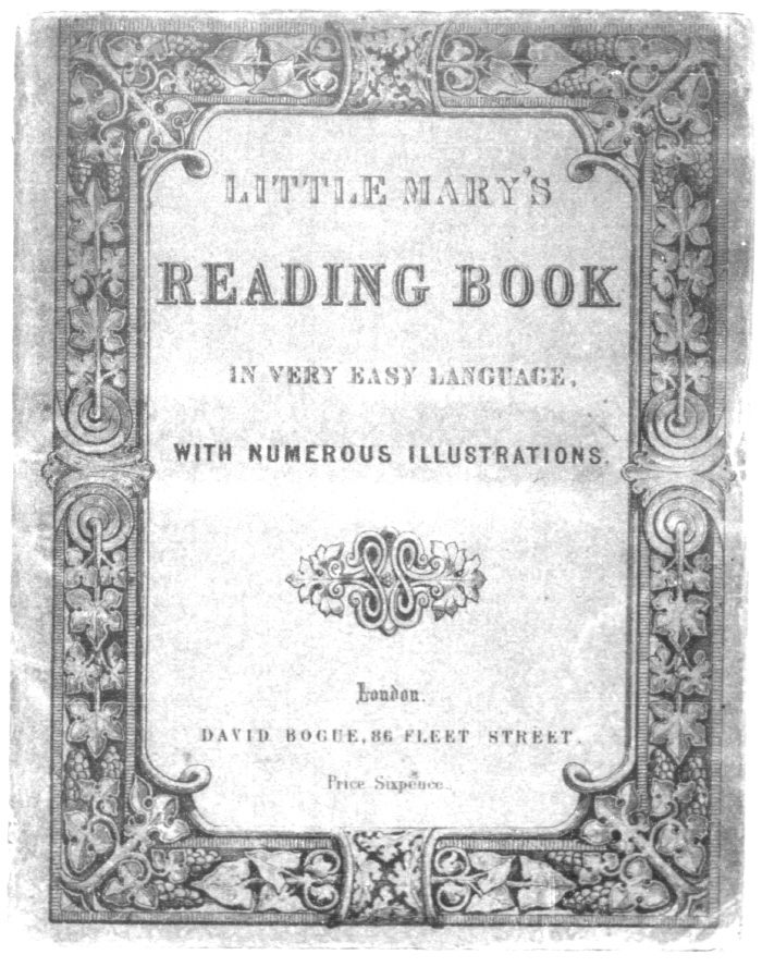 Little Marys Reading Book by Miss Julia Corners book Hockcliffe project